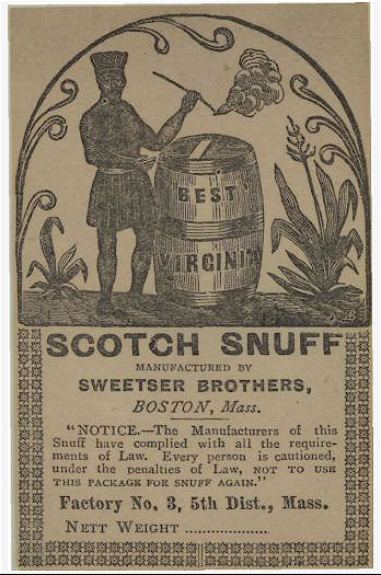 Scotch snuff manufactured by Sweetser Brothers, Boston, Mass.